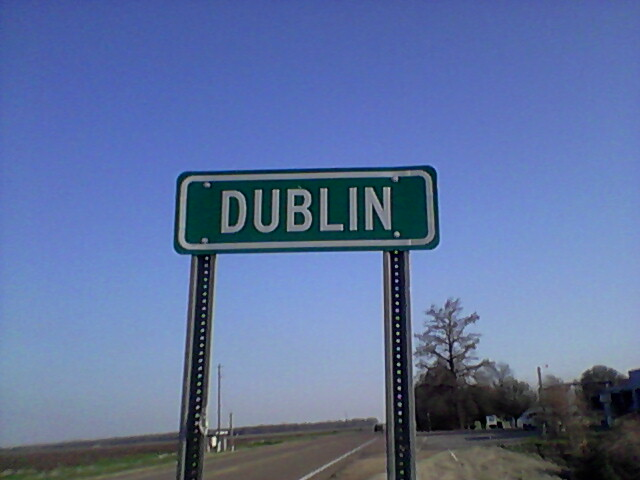 This is a picture of the Dublin Mississippi road sign I captured on 2-25-2011